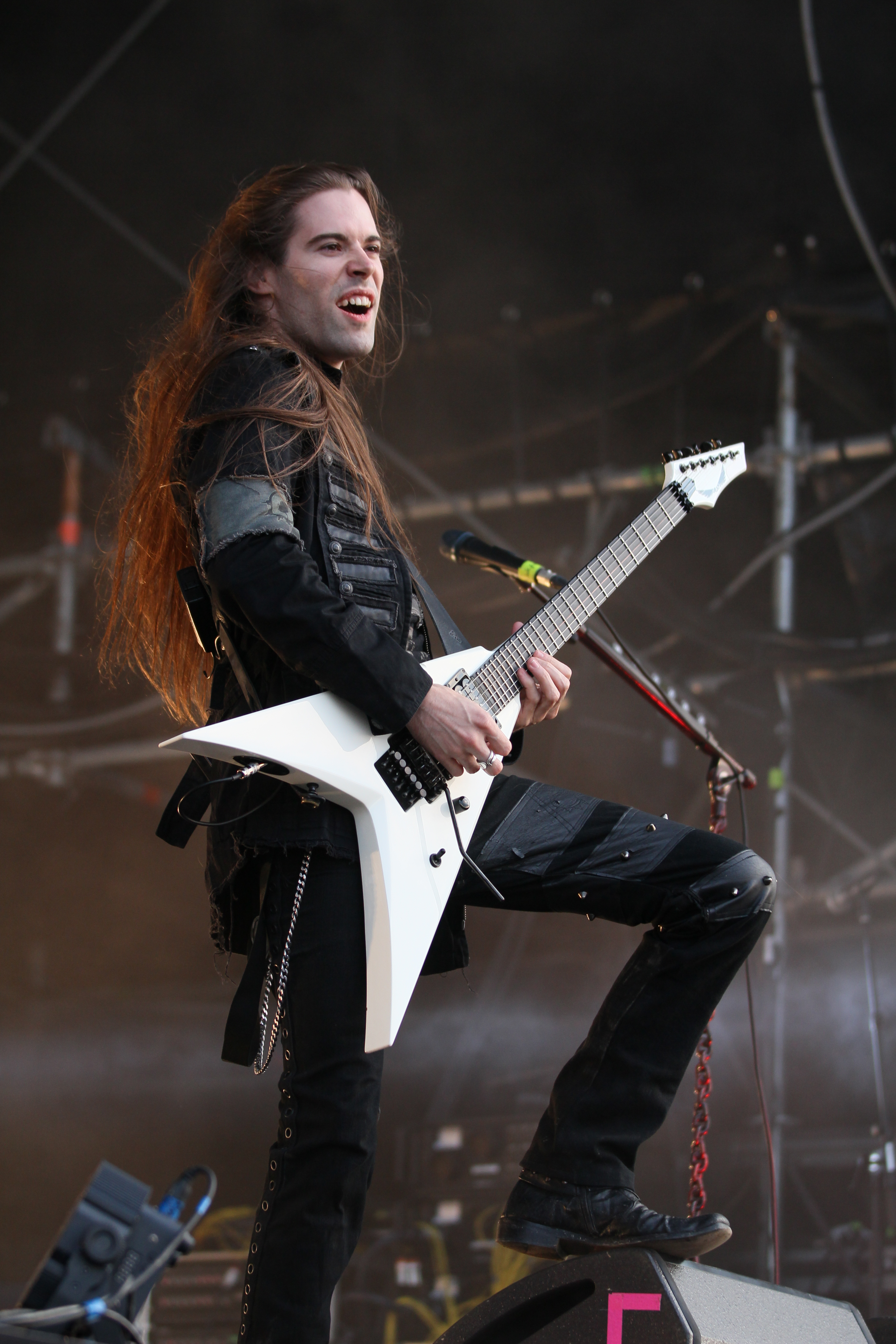 The Swedish melodic death metal band Arch Enemy at the Rockharz Open Air 2014 in Ballenstedt/Germany